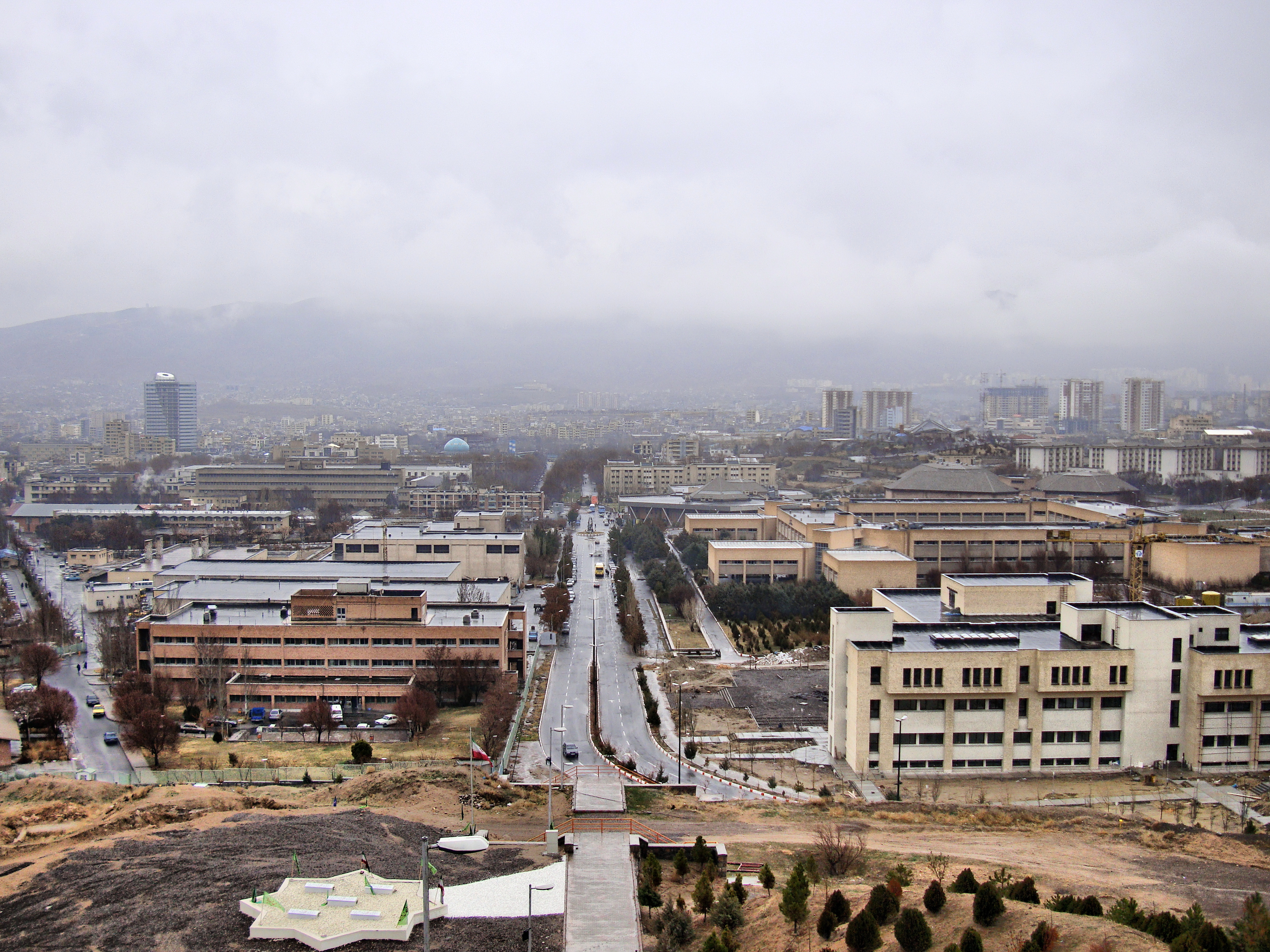 University of Tabriz. View from Research Institute for Applied Physics and Astronomy. HRD from (-1:1:1) shots by Sony DSC-W300